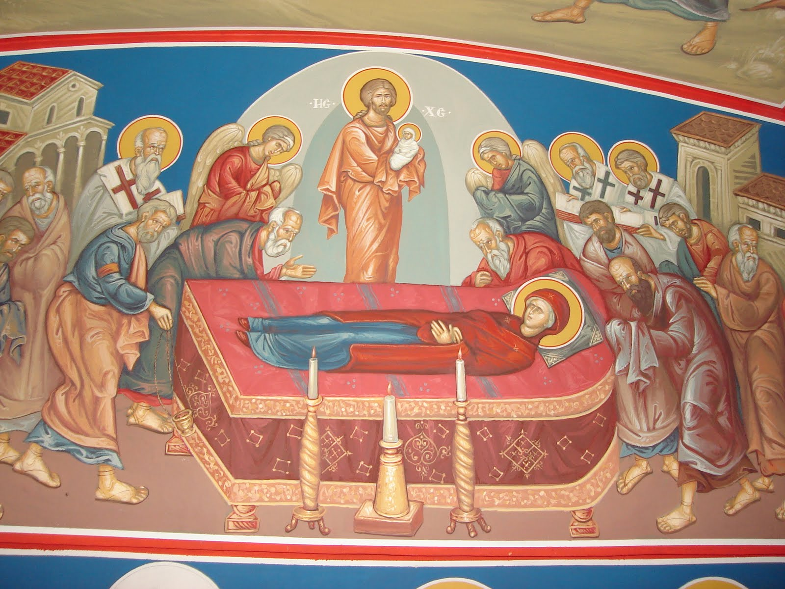 Fresco in St. Spiridon Church, Zletovo, Macedonia